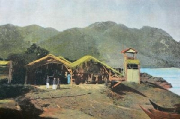 Tuyen_Quan_19th_century